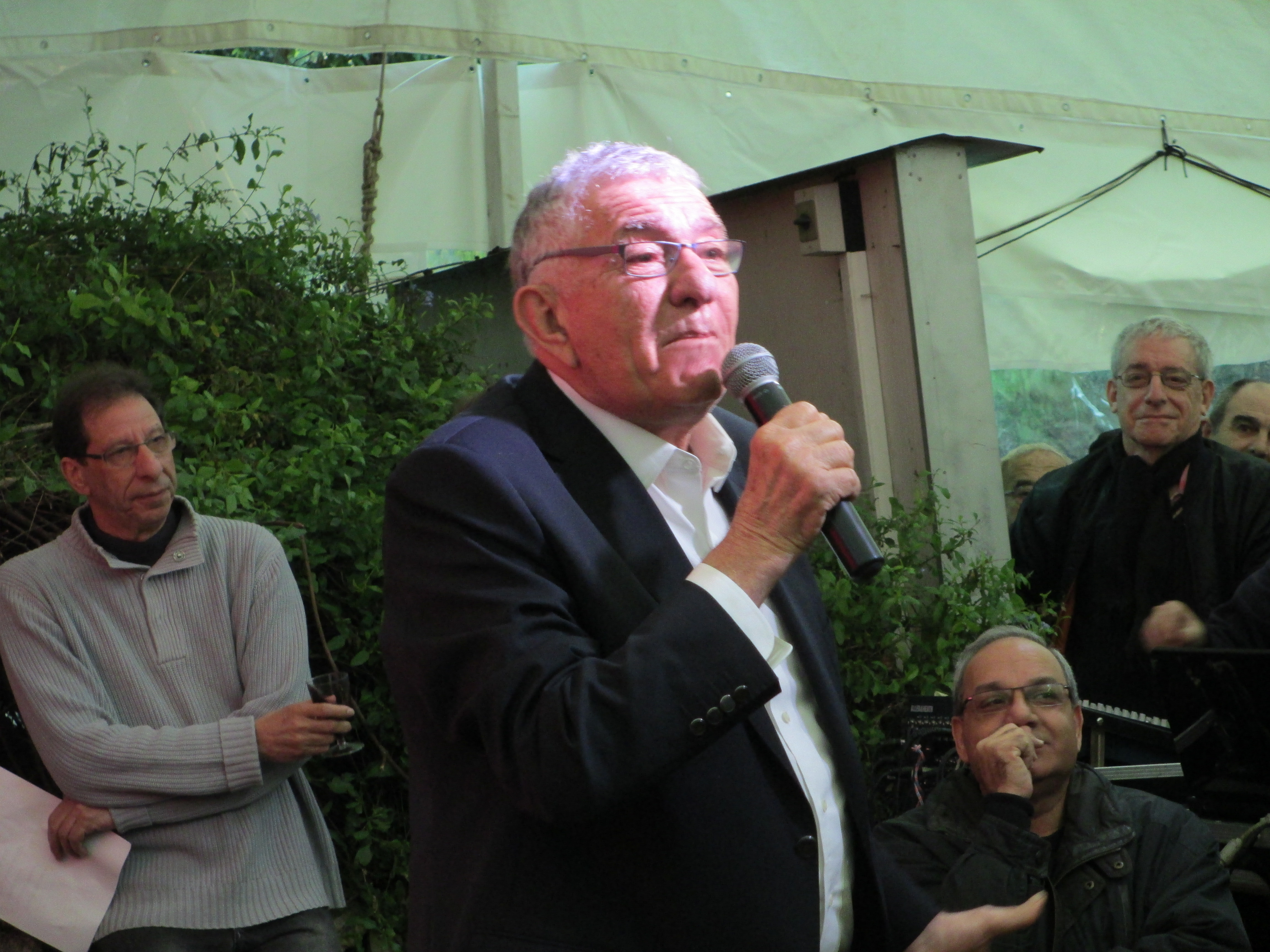 zvi bar, mayor of ramat gan ראש עיריית רמת גן צבי בר בטקס זיכרון לגרי בילו ב"בית צבי"